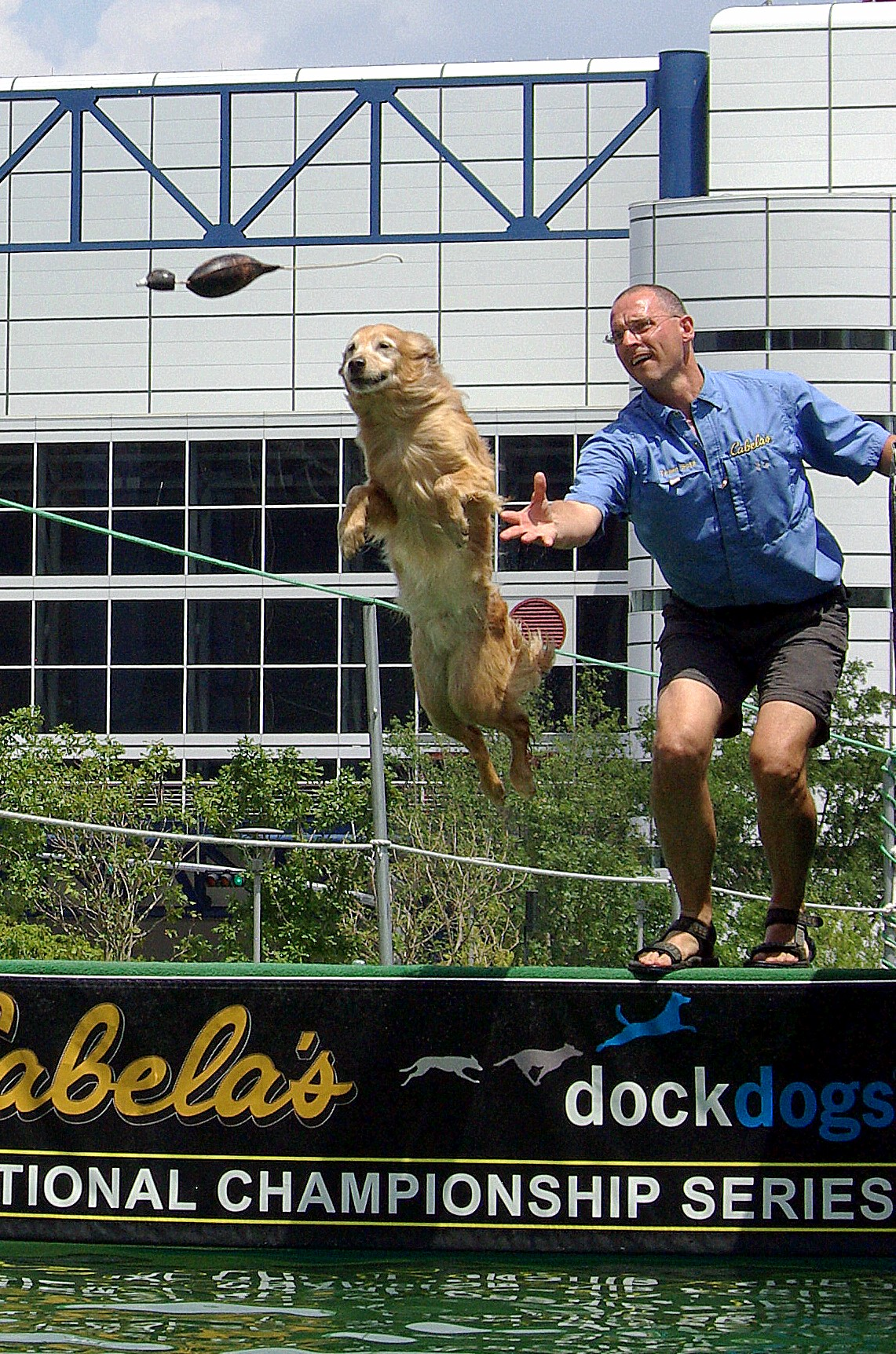 Woulda been funny if the owner had taken a dive, too.